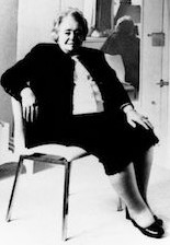 Fragment for using in collages